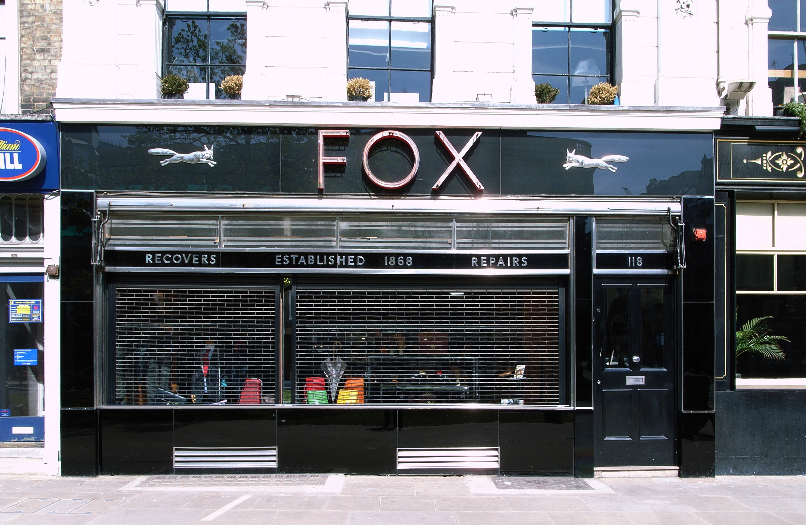 Fox Umbrella Shop Facade (1937), 118 London Wall, by Pollard. The front is in vitrolite, a type of black glass used in the 1930s.